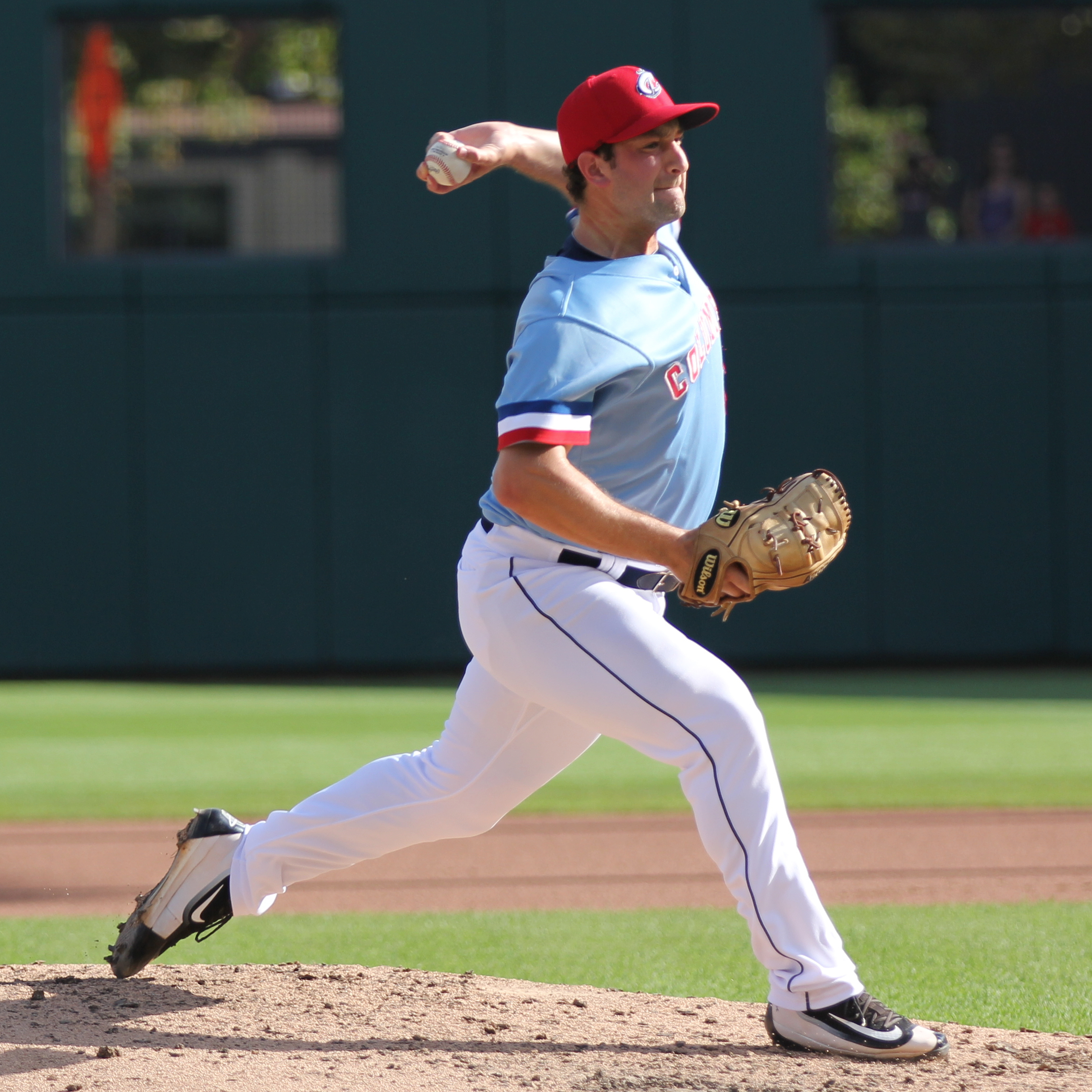 R.C. Orlan delivers a pitch for the Columbus Clippers during a 2018 game at Huntington Park in Columbus, Ohio